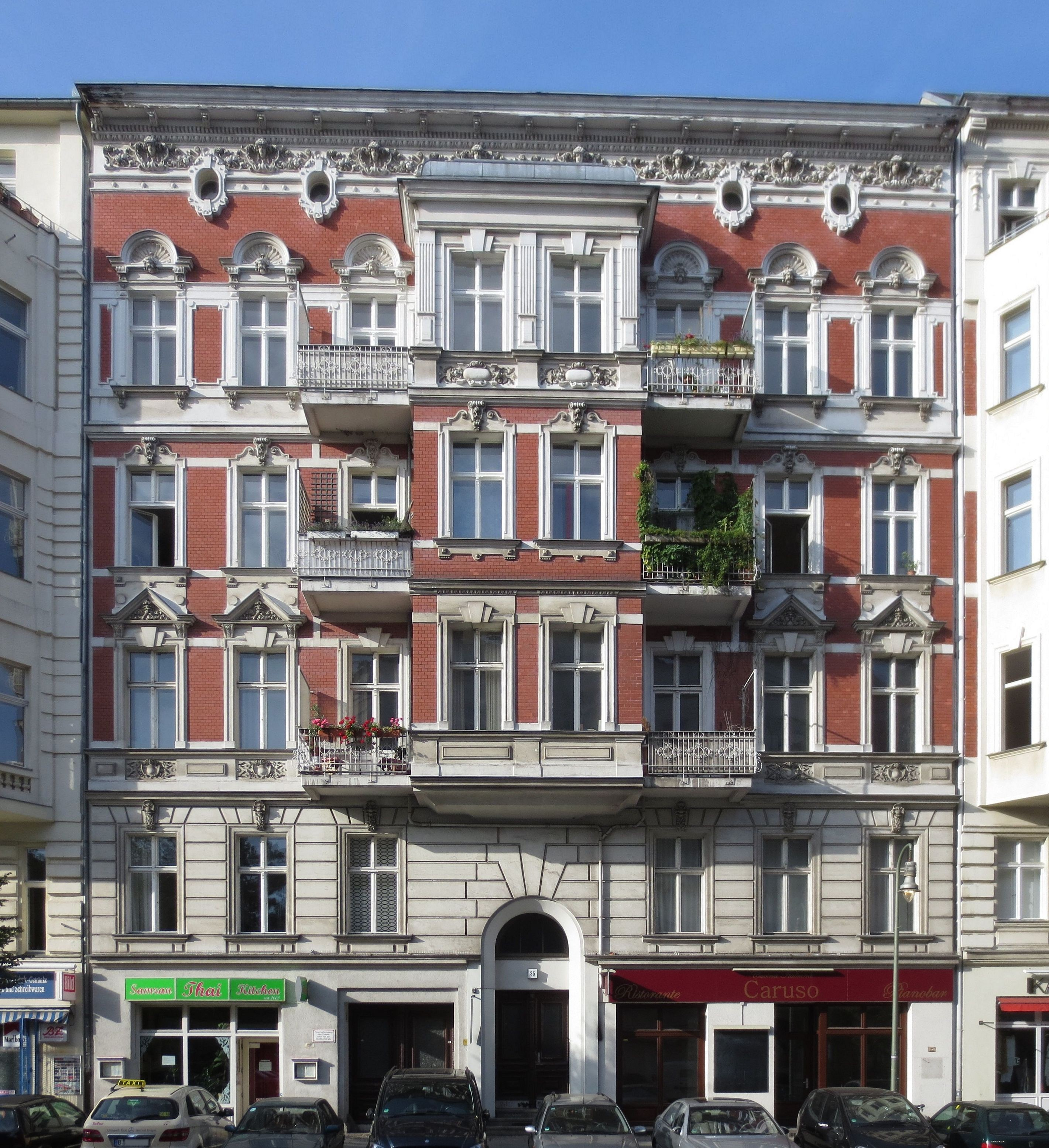 Residential building Winterfeldtstraße No. 35 in Berlin-Schöneberg. The house was built in 1887 by F. Hamann. It has been designated as a cultural heritage monument.